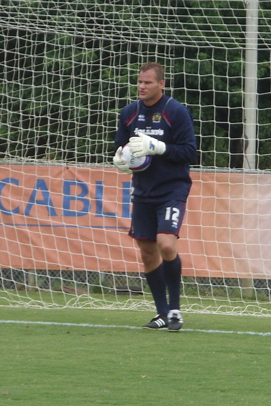 Goalkeeper Brian Jensen during the Burnley F.C. training session at WakeMed Soccer Park in Cary, North Carolina USA on Day 1 of their trip the United States.